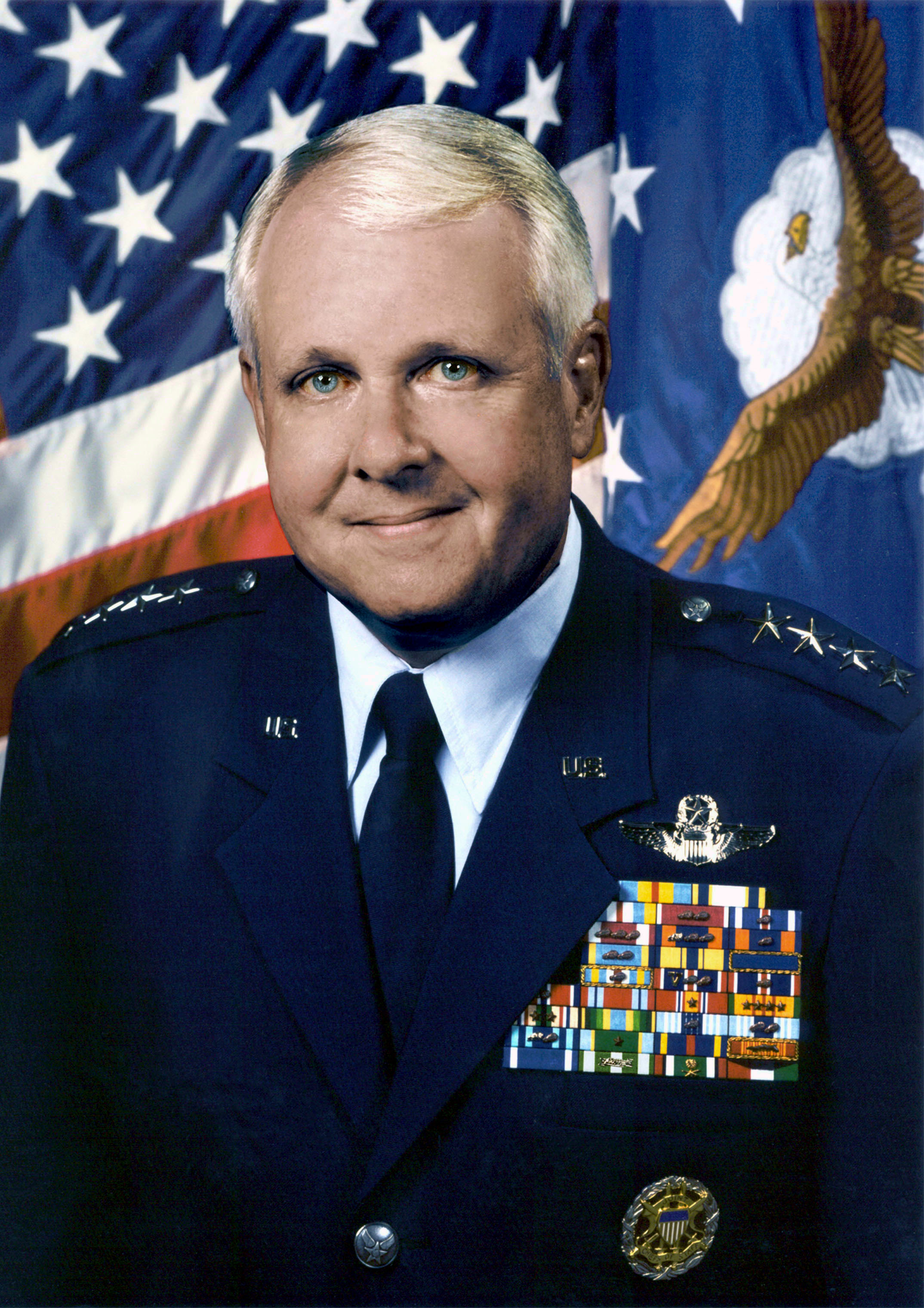 General Hal M. Hornburg from [1]